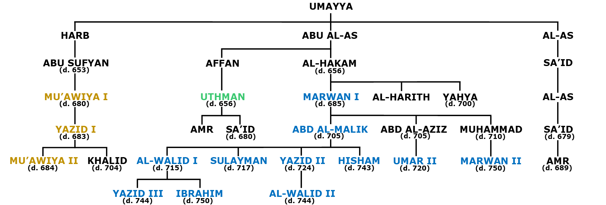 Family tree of the Umayyad clan and dynasty in 684 CE, with Marwanid line continued until 750 Sources: Della Vida, Giorgio Levi (2000). "Umayya b. ʿAbd Shams". In Bearman, P. J.; Bianquis, Th.; Bosworth, C. E.; van Donzel, E.; Heinrichs, W. P. (eds.). The Encyclopaedia of Islam, New Edition, Volume X: T–U. Leiden: E. J. Brill. pp. 837–838. ISBN 90-04-11211-1. Fishbein, Michael, ed. (1990). The History of al-Ṭabarī, Volume 21: The Victory of the Marwānids, A.D. 685–693/A.H. 66–73. SUNY Series in Near Eastern Studies. Albany, New York: State University of New York Press Hawting, G.R., ed. (1989). The History of al-Ṭabarī, Volume 20: The Collapse of Sufyānid Authority and the Coming of the Marwānids: The Caliphates of Muʿāwiyah II and Marwān I and the Beginning of the Caliphate of ʿAbd al-Malik, A.D. 683–685/A.H. 64–66. SUNY Series in Near Eastern Studies. Albany, New York: State University of New York Press. ISBN 978-0-88706-855-3. Hinds, Martin, ed. (1990). The History of al-Ṭabarī, Volume 23: The Zenith of the Marwānid House: The Last Years of ʿAbd al-Malik and the Caliphate of al-Walīd, A.D. 700–715/A.H. 81–95. Albany, New York: State University of New York Press. ISBN 978-0-88706-721-1. Howard, I.K.A., ed. (1991). The History of al-Ṭabarī, Volume 19: The Caliphate of Yazīd ibn Muʿāwiyah, A.D. 680–683/A.H. 60–64. SUNY Series in Near Eastern Studies. Albany, New York: State University of New York Press. ISBN 978-0-7914-0040-1. Harv warning: There is no link pointing to this citation. The anchor is named CITEREFHoward1991. Powers, Stephan, ed. (1989). The History of al-Ṭabarī, Volume 24: The Empire in Transition: The Caliphates of Sulaymān, ʿUmar, and Yazīd, A.D. 715–724/A.H. 96–105. SUNY Series in Near Eastern Studies. Albany, New York: State University of New York Press. ISBN 978-0-7914-0072-2. Sharon, Moshe (June 1966). "An Arabic Inscription From The Time Of The Caliph 'Abd Al-Malik". Bulletin of the School of Oriental and African Studies. 29 (2): 367–372